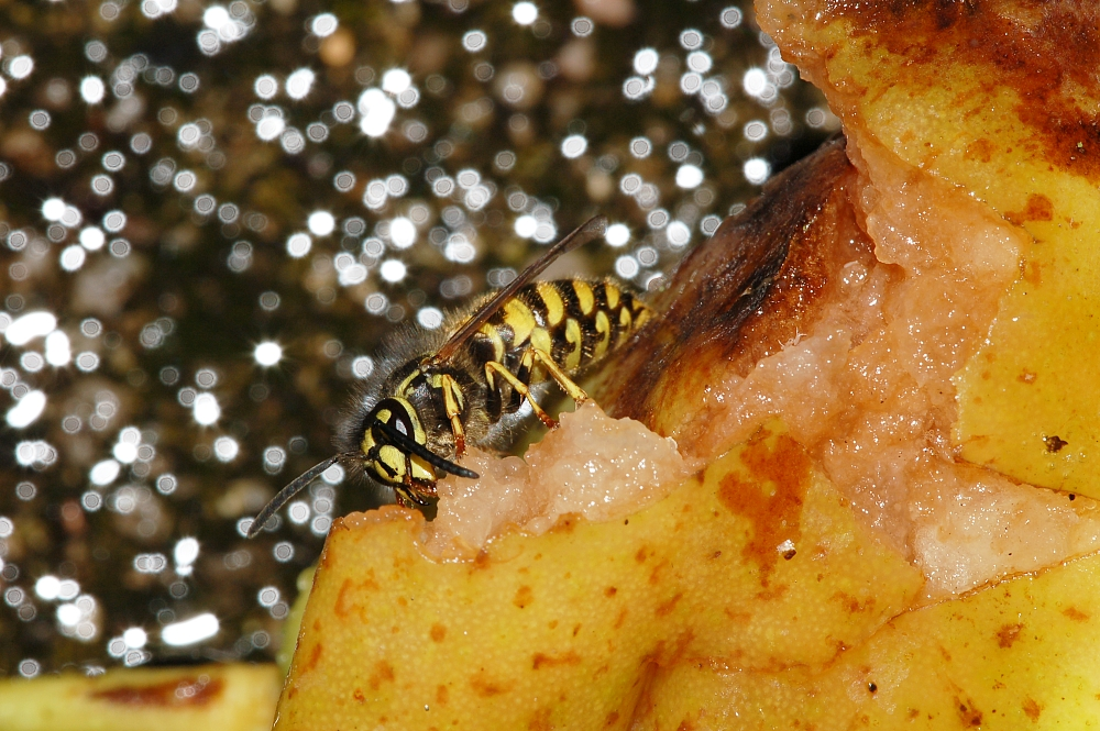 Vespula vulgaris, Nied, Frankfurt/Main on pear, Germany